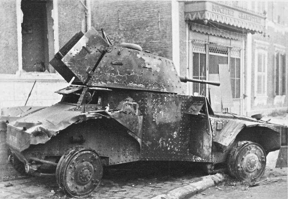 Destroyed Panhard 178 (M7589) of the 2nd GRDI, France 1940. Other images from : [1], [2], [3], [4],[5] Other view of the same scene: File:P004264 - Horch 830 BL Sedankabriolett in La Capelle, May 1940.jpg